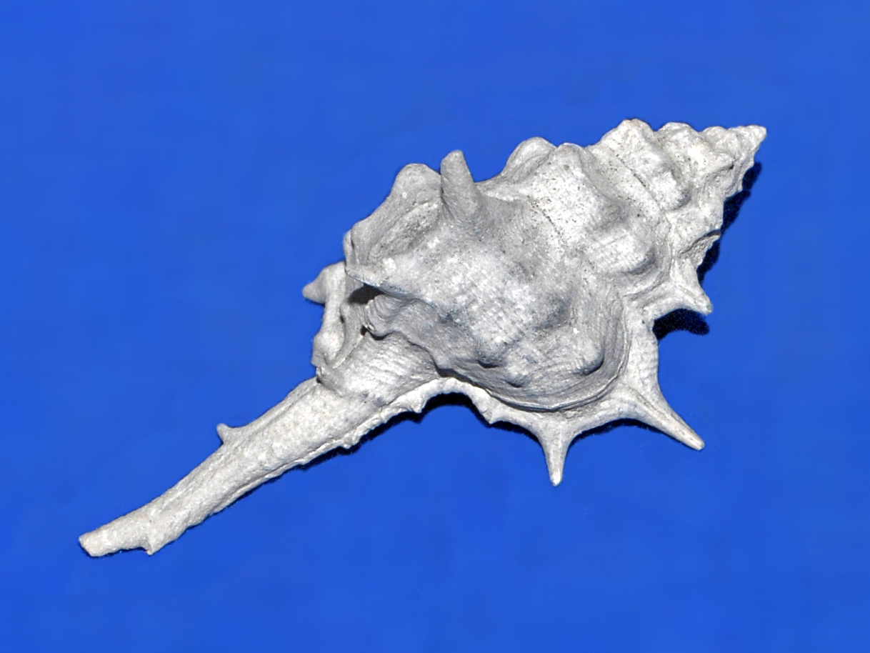 Fossil shell of Murex spinicosta from Pliocene of Italy, on display at the Museo Paleontologico, Asti